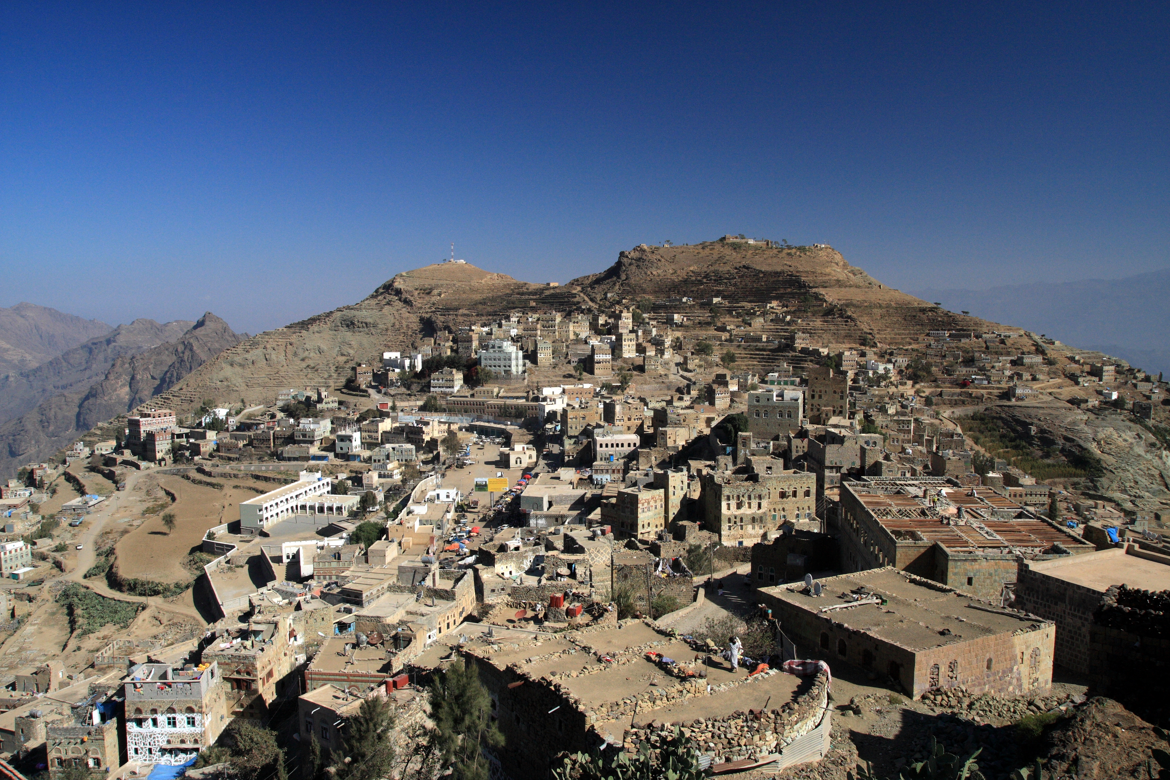 Jabal An-Nabi Shu'ayb is in the background, to the left